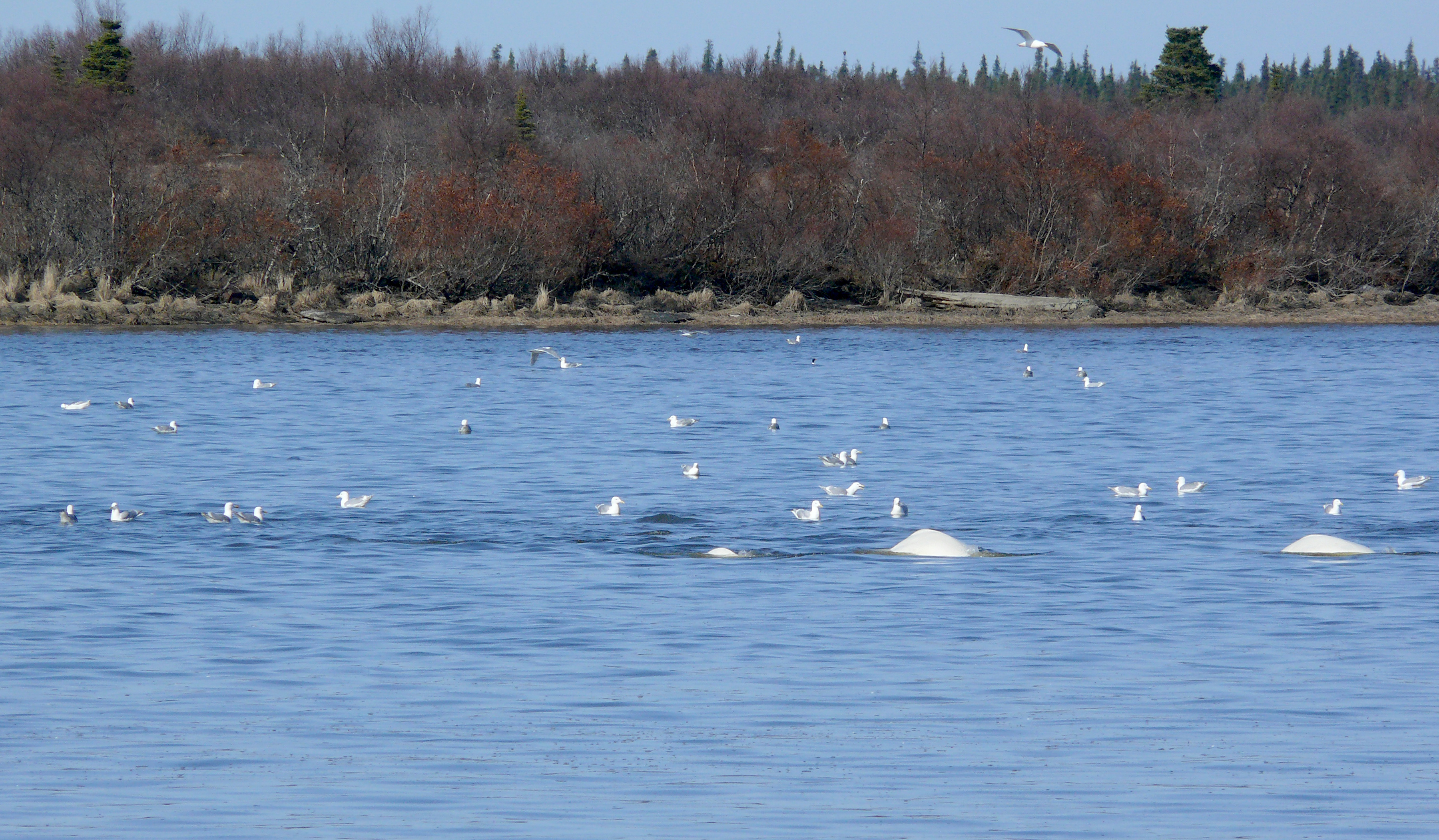 Belugas in Naknek River, King Salmon copy